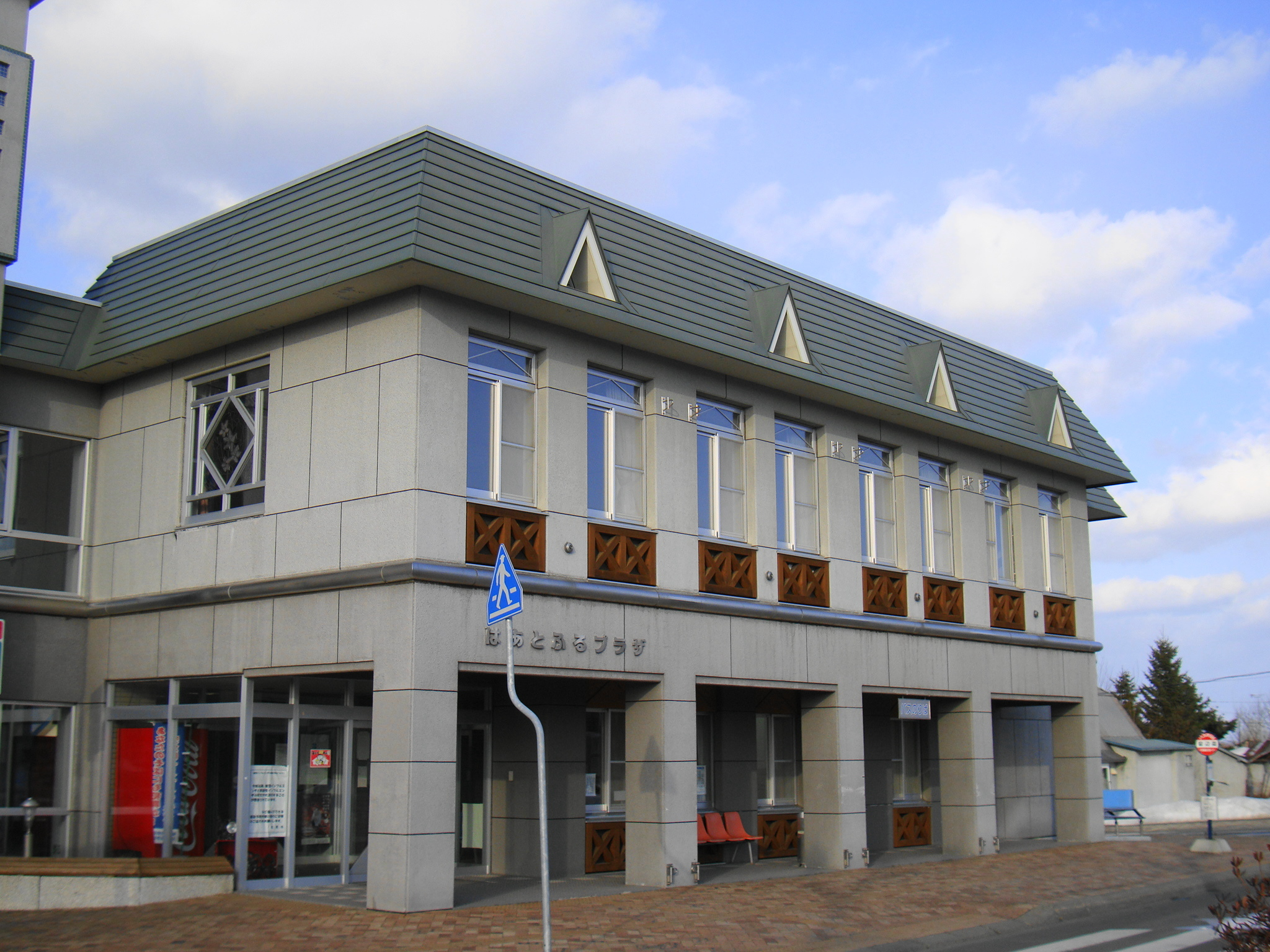 Rubeshibe depot, Rubeshibe Station